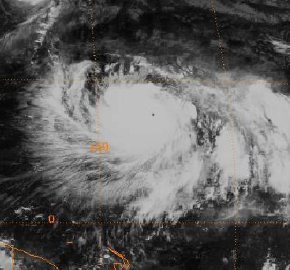 Supertyphoon Gay at peak strength on November 21, 1992